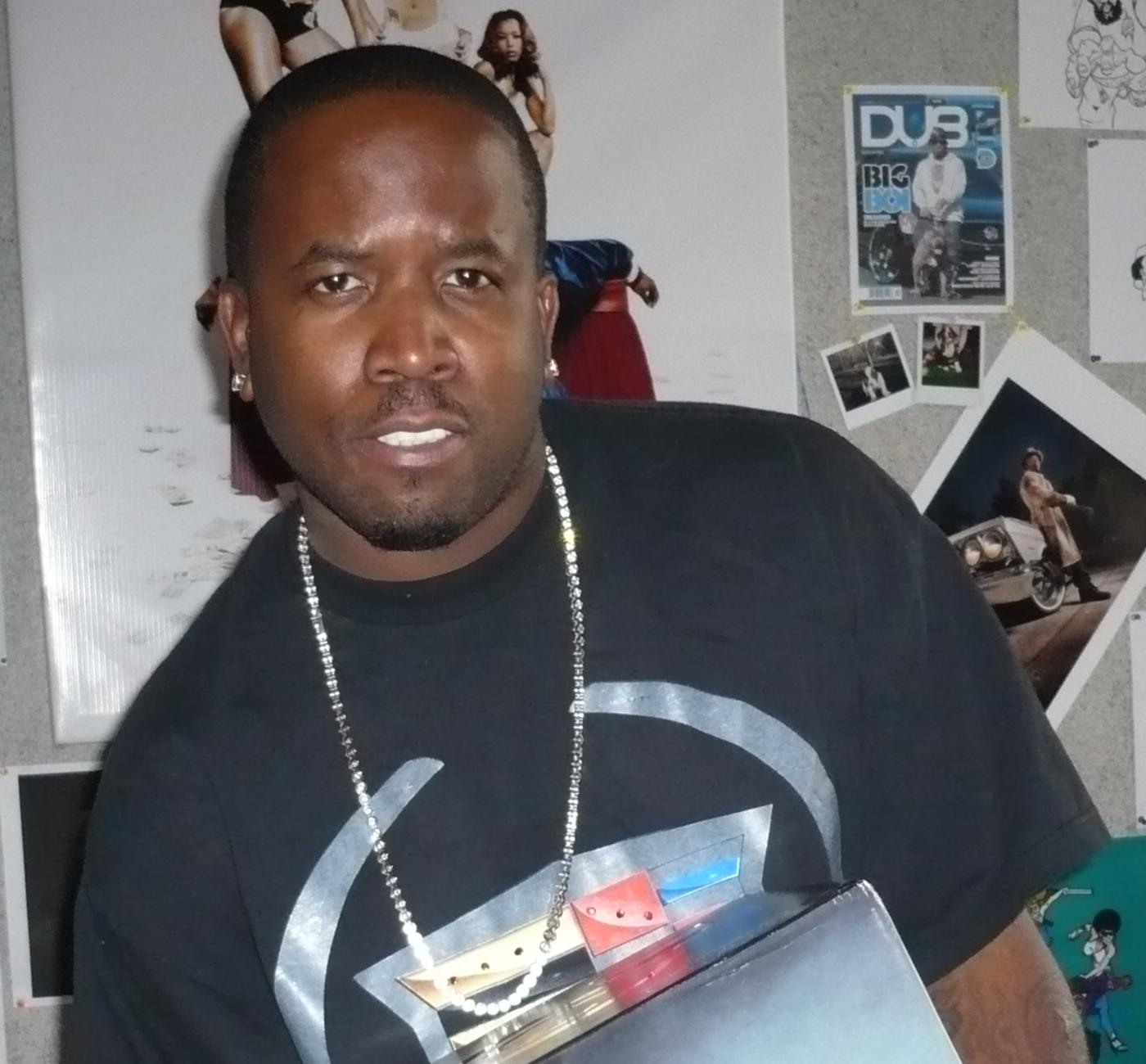 Big Boi, cropped from original image.